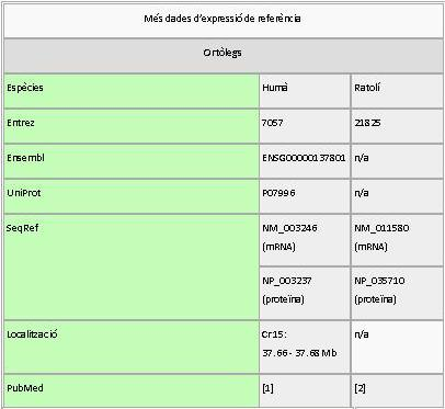 Gene date of THBS1